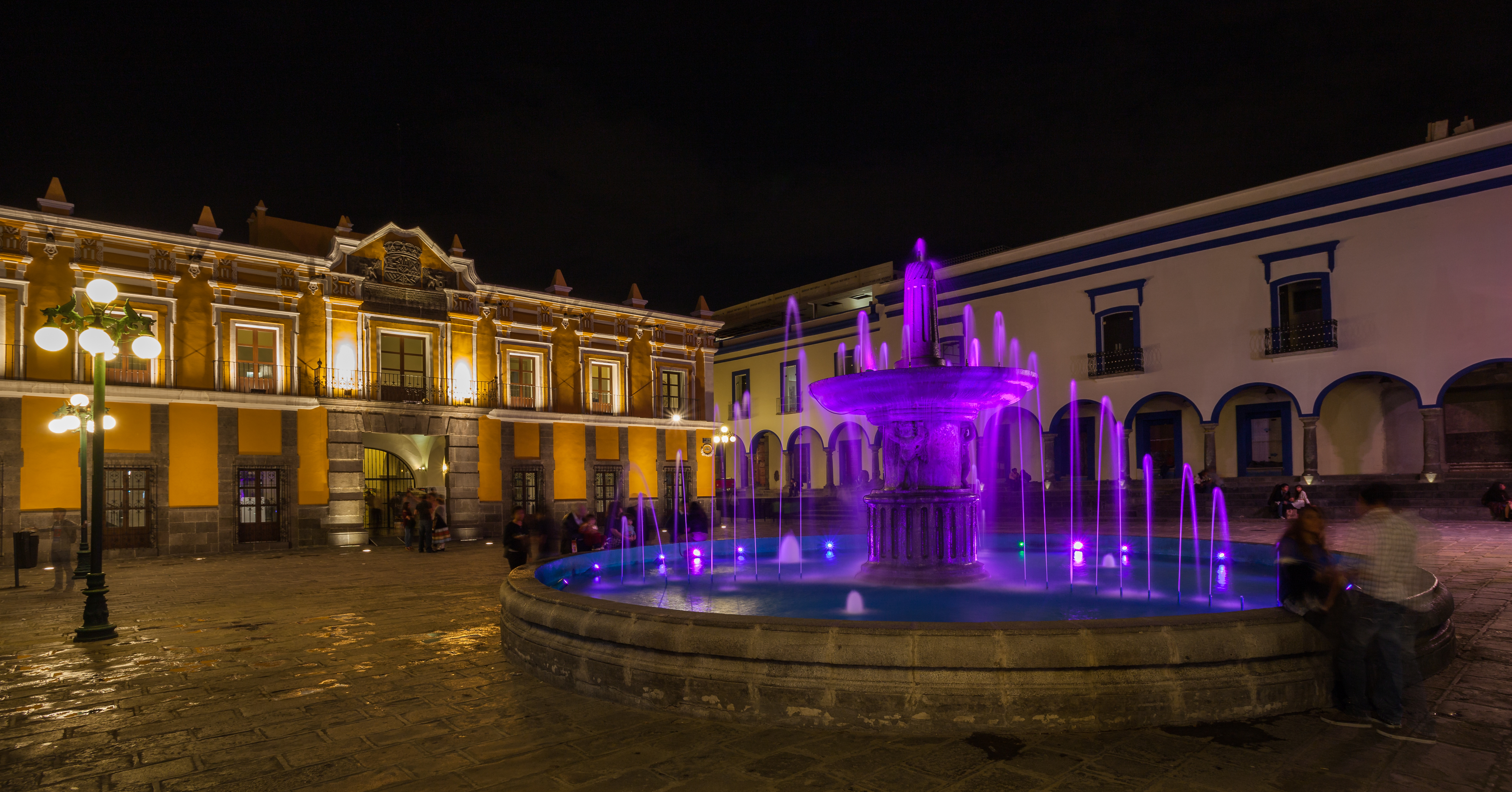 Teatro Principal, Puebla, Mexico